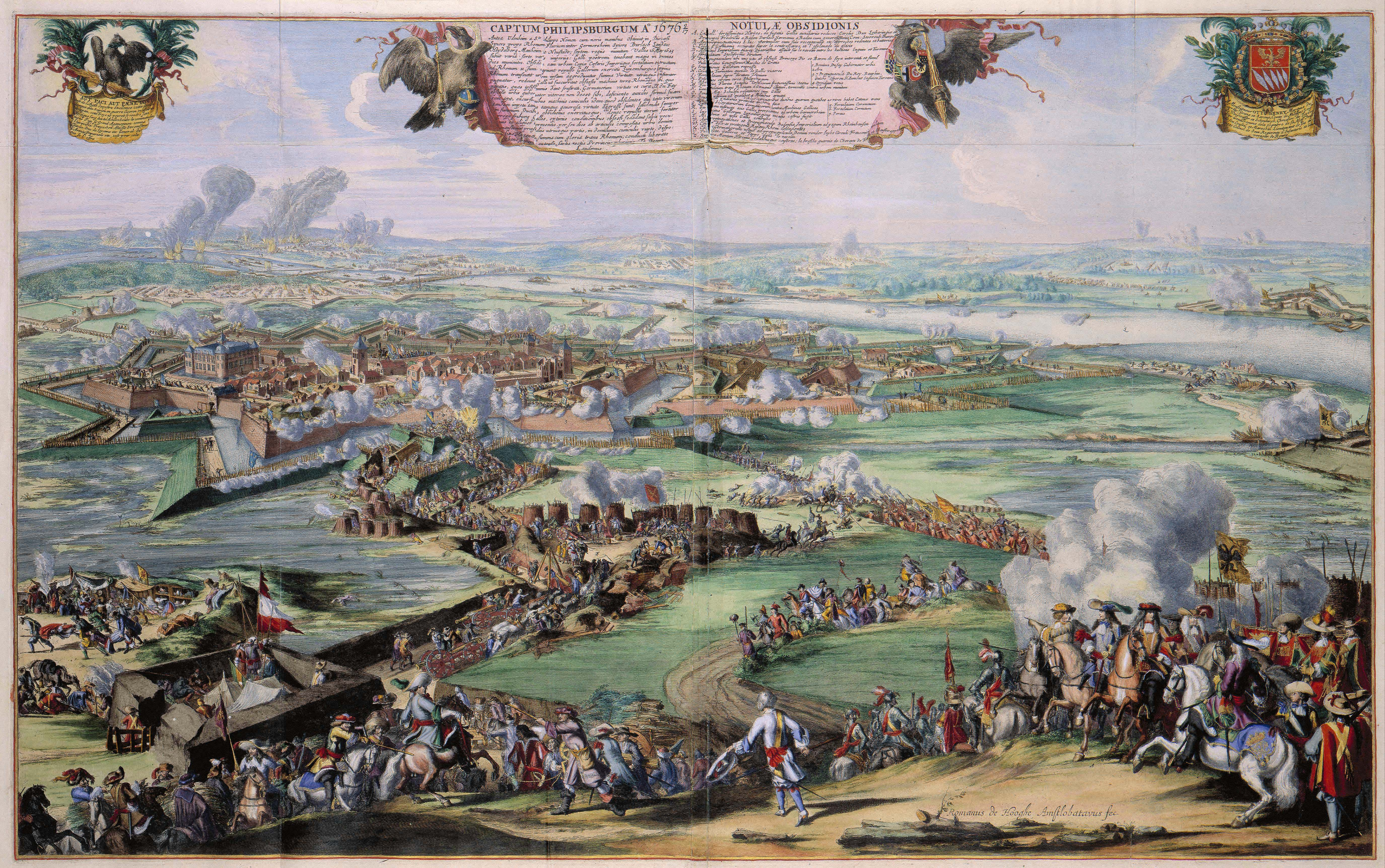 The Dutch Republic waged war with France and England between 1672 en 1678. Though the Republiek settled for peace with England in 1674, the war with France would last another four years. During this war the siege of the German castle Philipsburg took place. Philipsburg was conquered by the German army of the French field marchall Crequi on 17 September 1676.